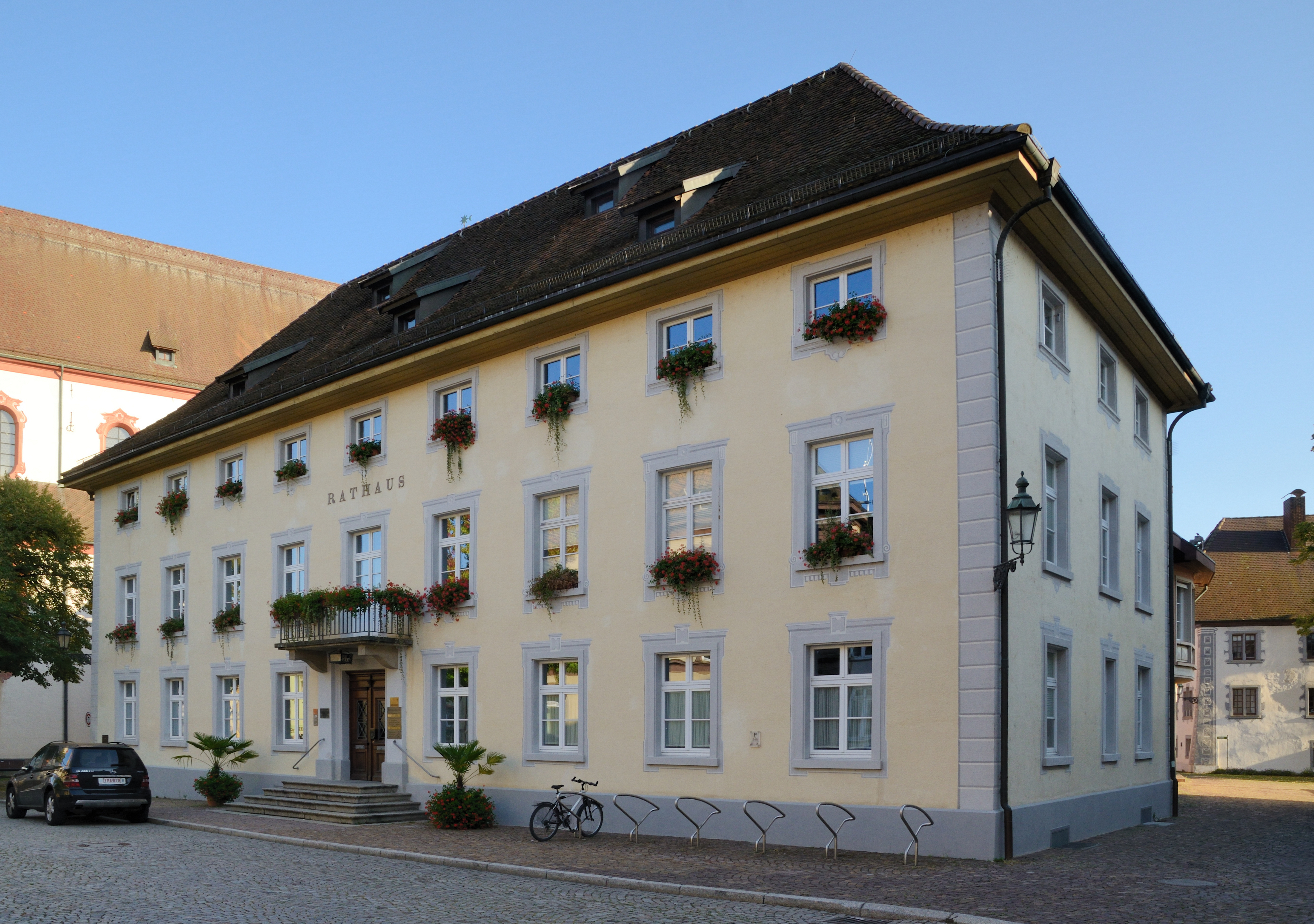 Bad Säckingen: city hall